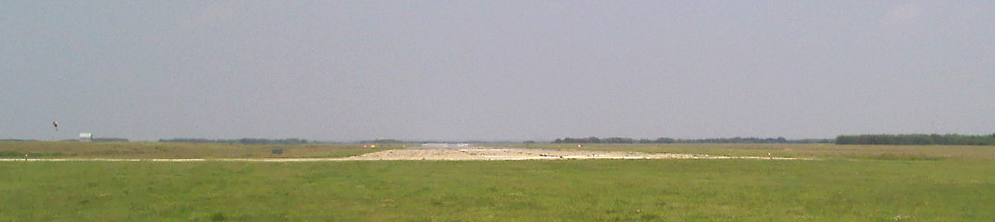 Runway 03 at CFB Edmonton.